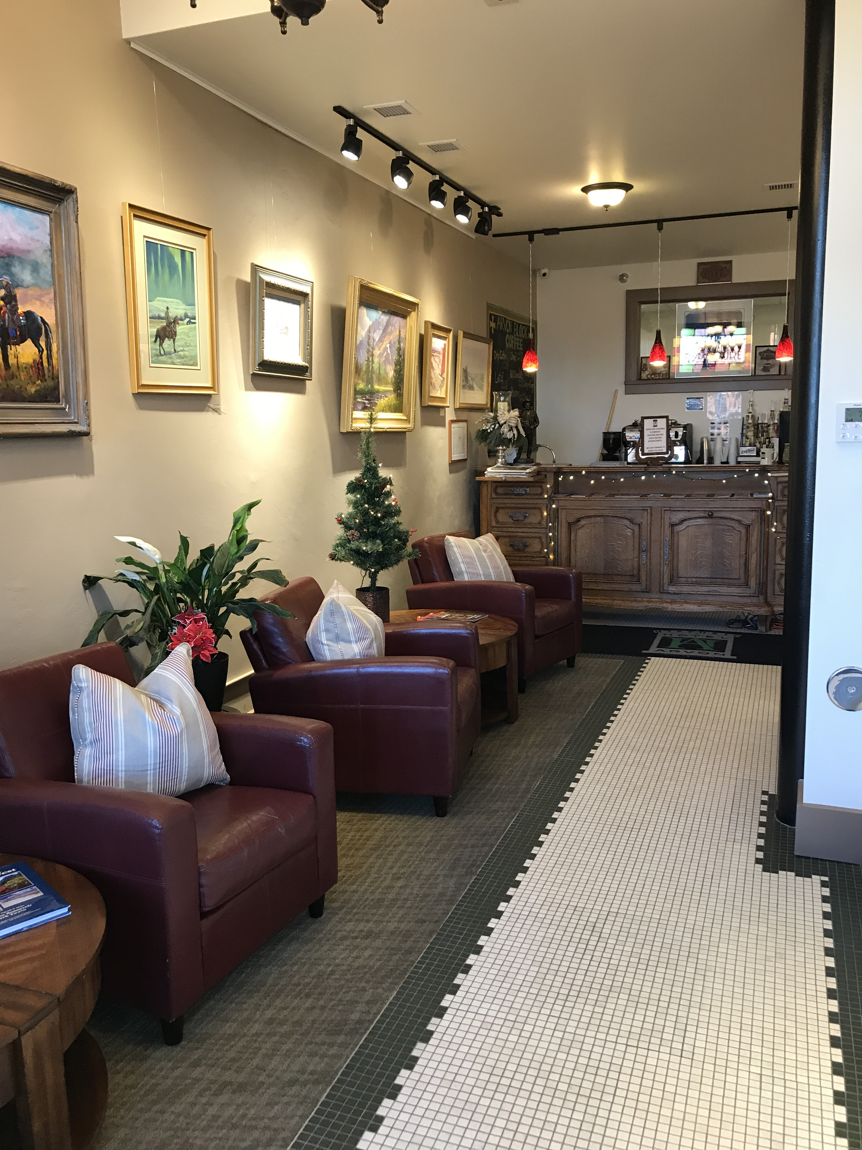 Arvon Block, 114-116 First Avenue South, Great Falls, Montana